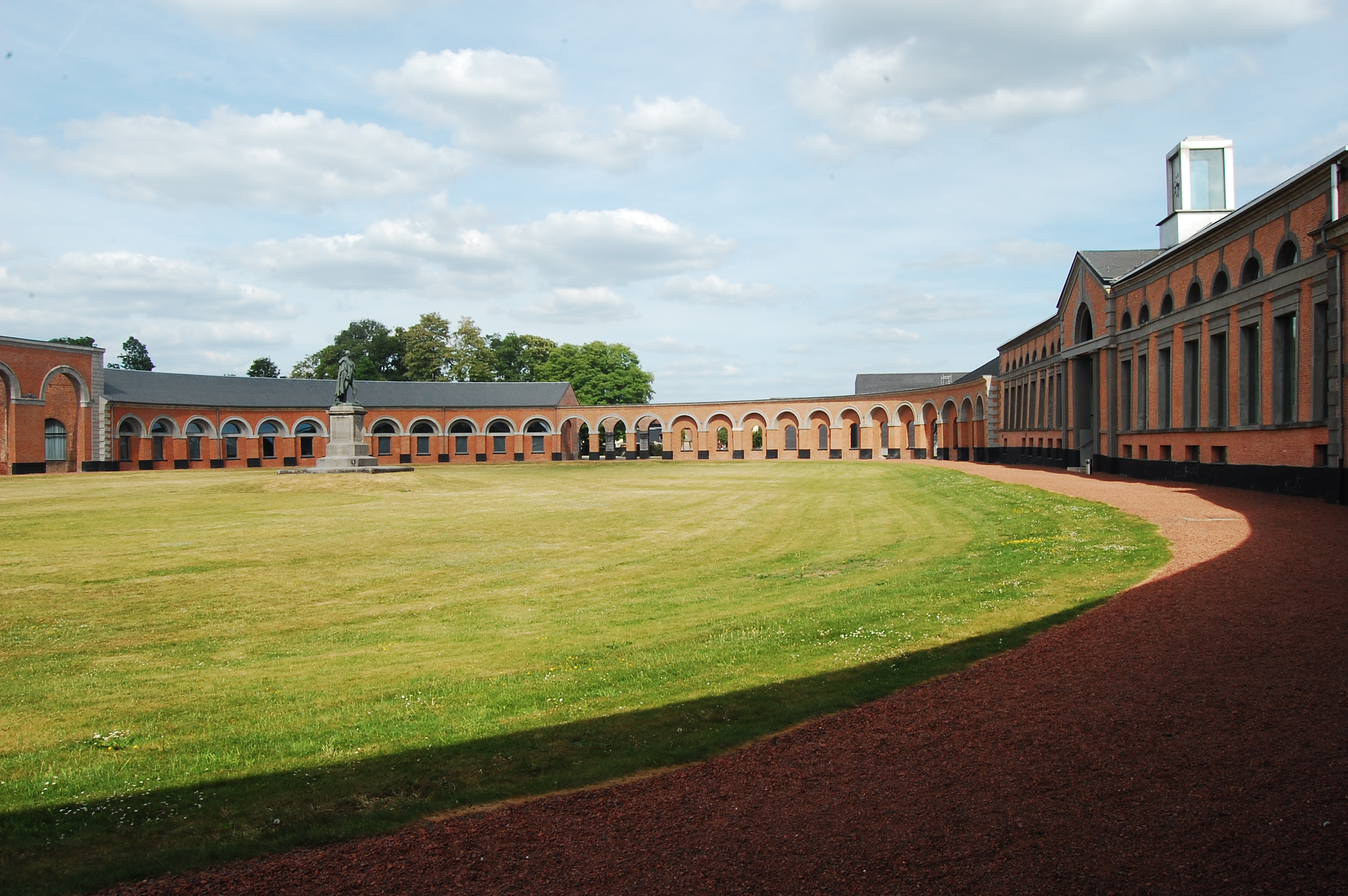 Buildings part of the coal mining complex Le Grand Hornu, Mons, Belgium